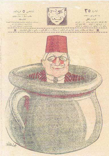 "Ali Kemal Bey in his office." Political cartoon by Cevat Şakir (1890-1973) published in the Istanbul magazine Güleryüz (issue 35, p.1, 29 December 1921) about Ali Kemal Bey, an opponent of the Kemalist movement during the Turkish War of Independence, here shown sitting in a chamber pot.